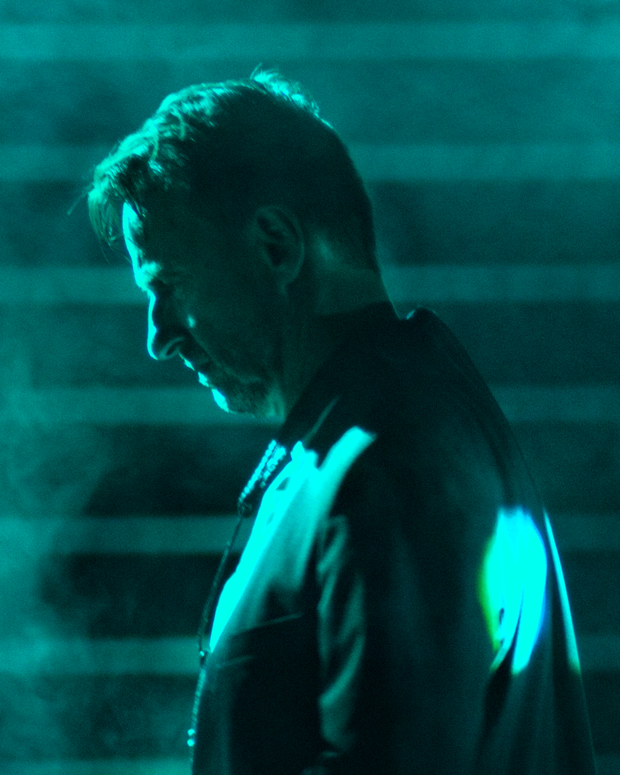 Mateusz Pospieszalski, Voo Voo concert in Katowice, Sejmu Śląskiego square, photo taken with permission of Voo Voo manager, Mariusz Dettlaff